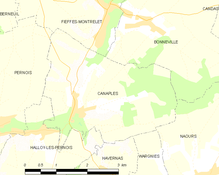 Map of French municipality Canaples